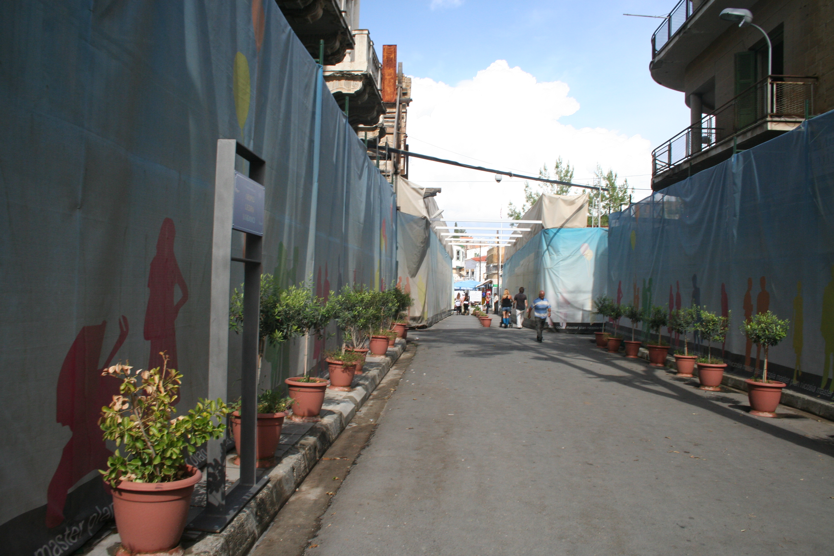 Ledra Street in 2009